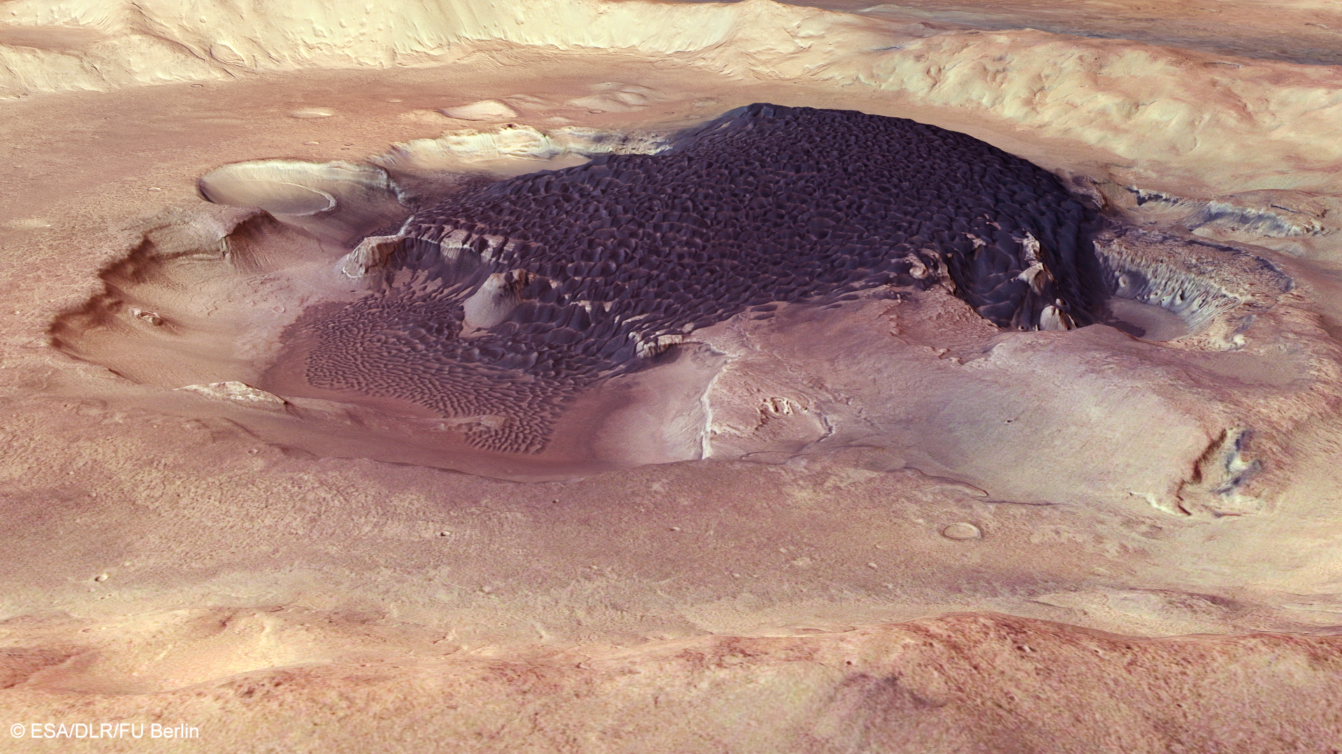 Rabe Crater is a 108 km-wide impact crater with an intricately shaped dune field. The dune material likely comprises locally eroded sediments that have been shaped by prevailing winds. Other smaller craters in the region also contain these dark deposits. One relatively young and deep crater can be seen in the upper left; as well as the dark material, channels and grooves are clearly visible in its crater walls. The images used for this mosaic were taken by the High Resolution Stereo Camera on ESA’s Mars Express on 7 December 2005 (orbit 2441) and 9 January 2014 (orbit 12736). The scene is located at 35°E/44°S, about 320 km west of the giant Hellas impact basin in the southern highlands of Mars. The image resolution is about 15 m per pixel.